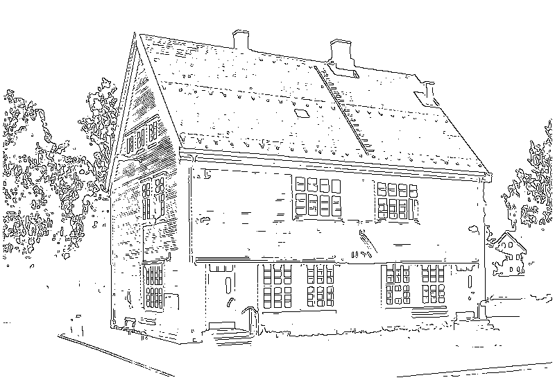 Thresholded Canny edges of Lena stasjon using Otsu's algorithm